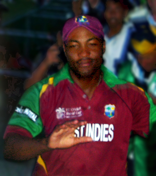 Brian Lara's final match - the lap of honour